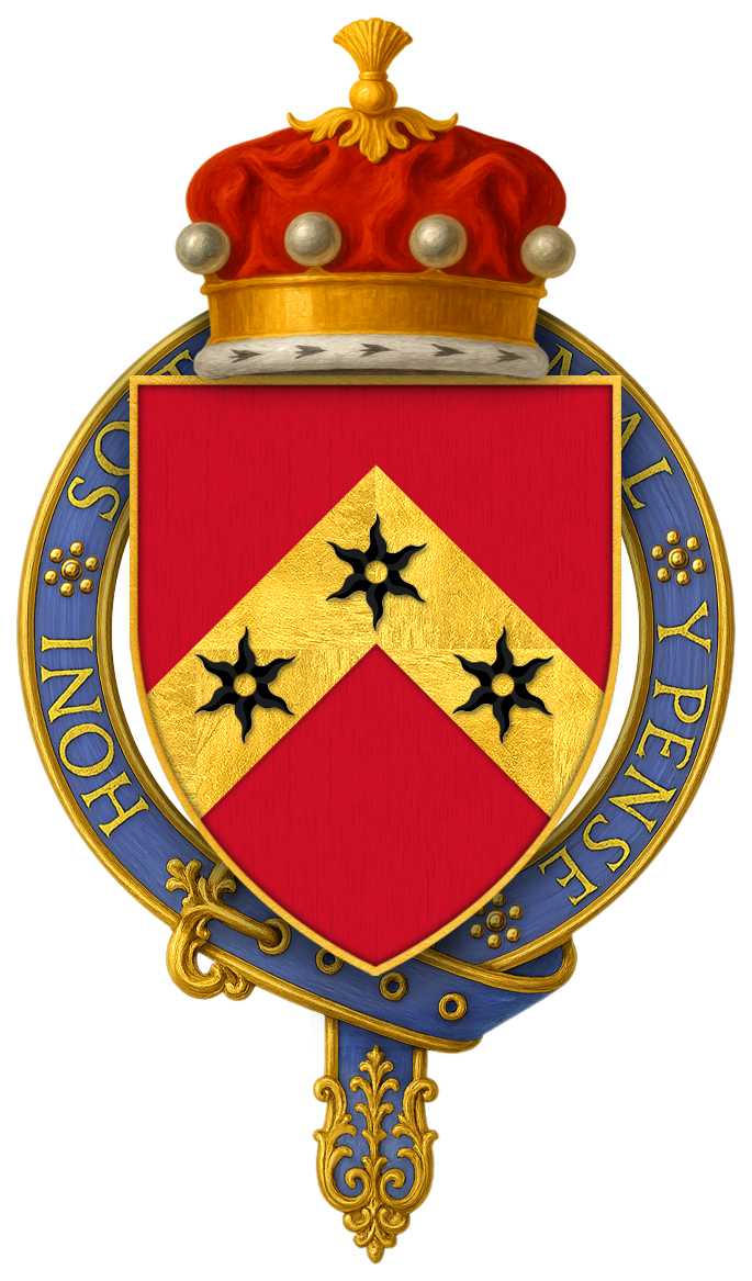 Coat of Arms of Sir Reginald de Cobham, 1st Baron Cobham, KG “ Reginald Lord Cobham of Sterburgh… Arms: Gules, on a chevron Or three estoiles Sable. ” BELTZ, George Frederick, Memorials of the Order of the Garter from Its Foundation to the Present Time, London: William Pickering, 1841.